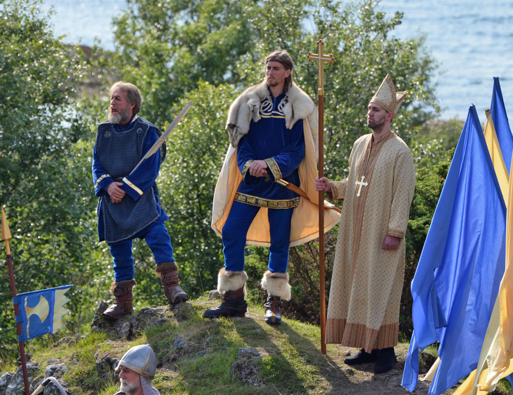 Pål Sverre Hagen at the "Herøyspelet Kongens Ring" as King Olav Haraldsson (in the middle)